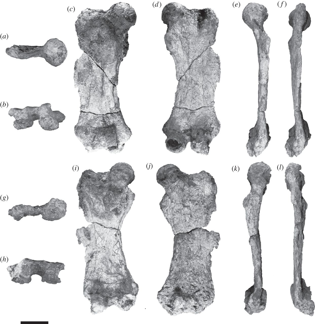 Holotype of Eionaletherium (IVIC-P-2870), right and left associated femur